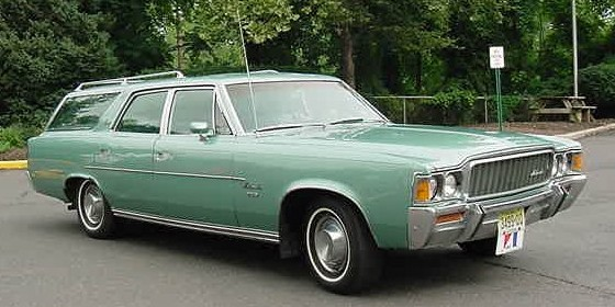 1971 AMC Ambassador station wagon by American Motors Corporation. This car finished in light green. Front right side view. Picture taken at the AMCRC car show that was held in Somerset, New Jersey held in Somerset, New Jersey, during August 8 and 9, 2003.